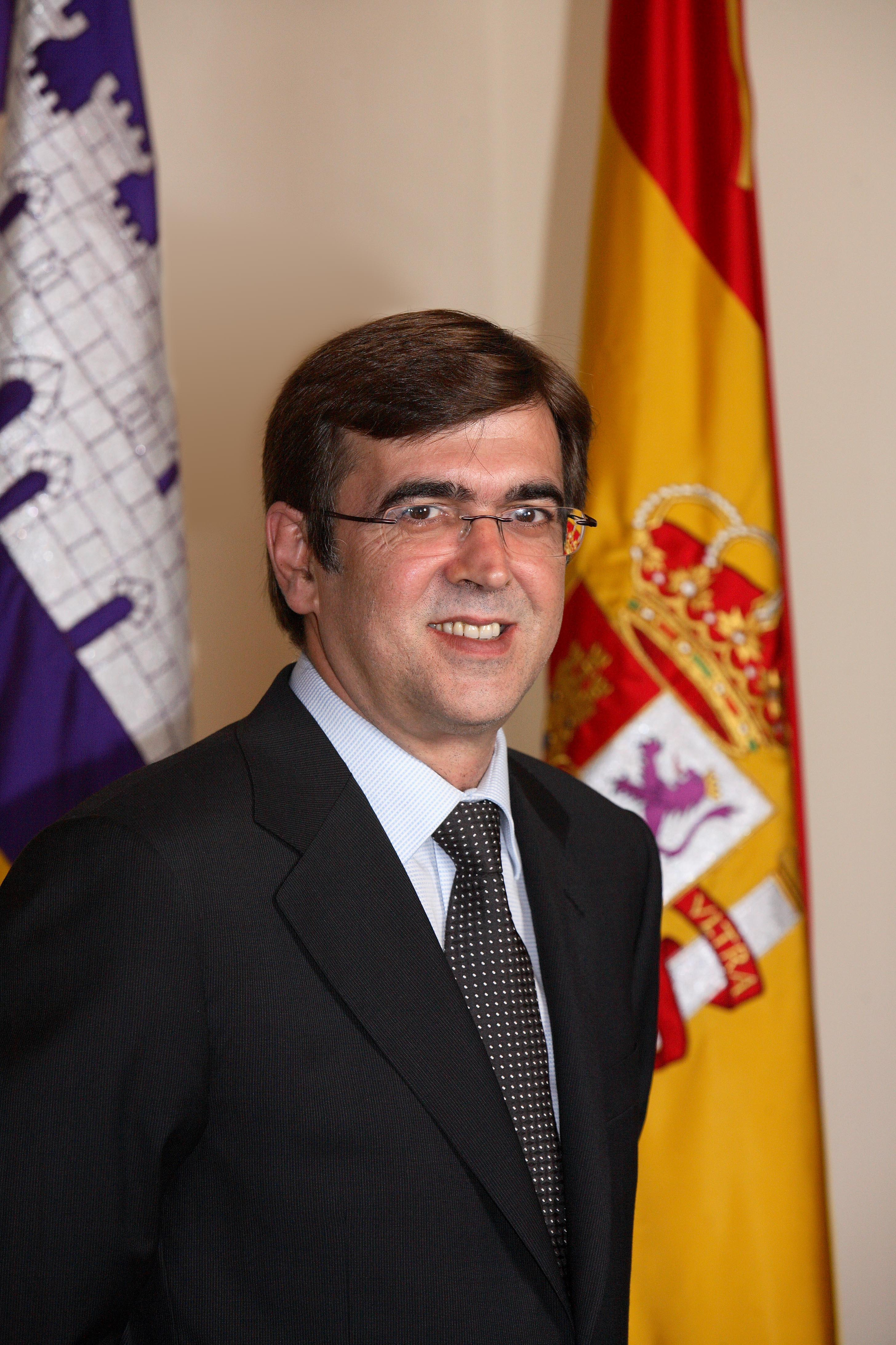 Official photograph of President Francesc Antich i Oliver of the Balearic Islands